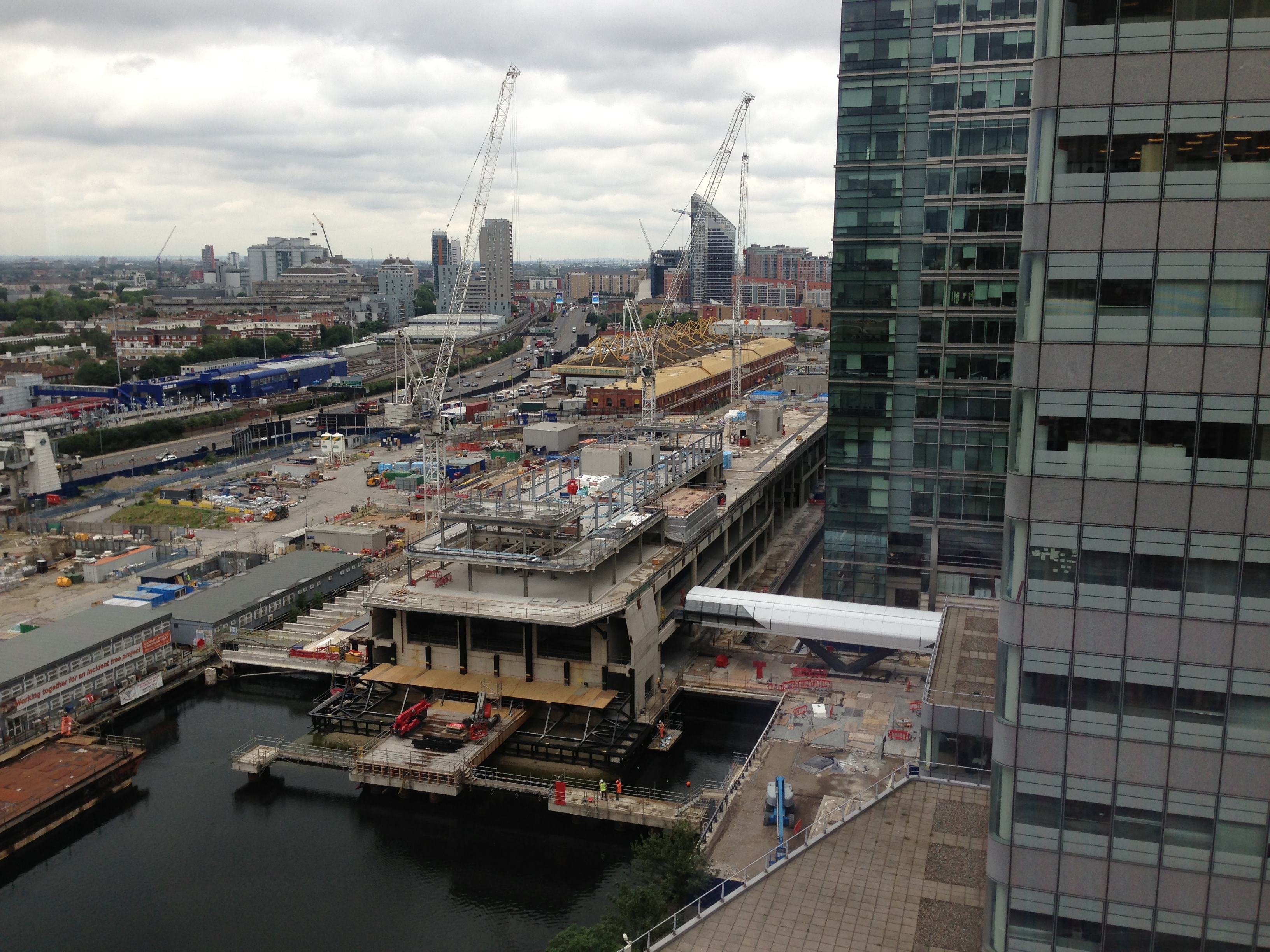 Canary Wharf Crossrail Station August 2013. Also visible to the left is Poplar DLR station.